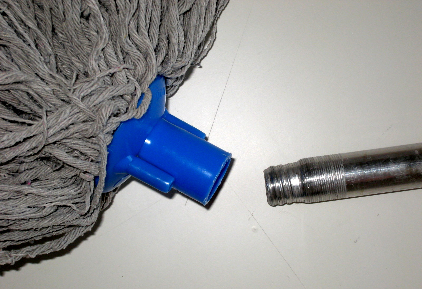 Mop, classic yarn mop and handle (detail of threads for fastening)